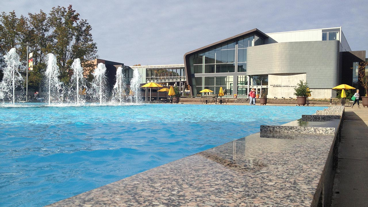 A photo of the Richmond Center for Visual Arts on Western Michigan University's campus in Kalamazoo, Michigan taken in the fall of 2012.